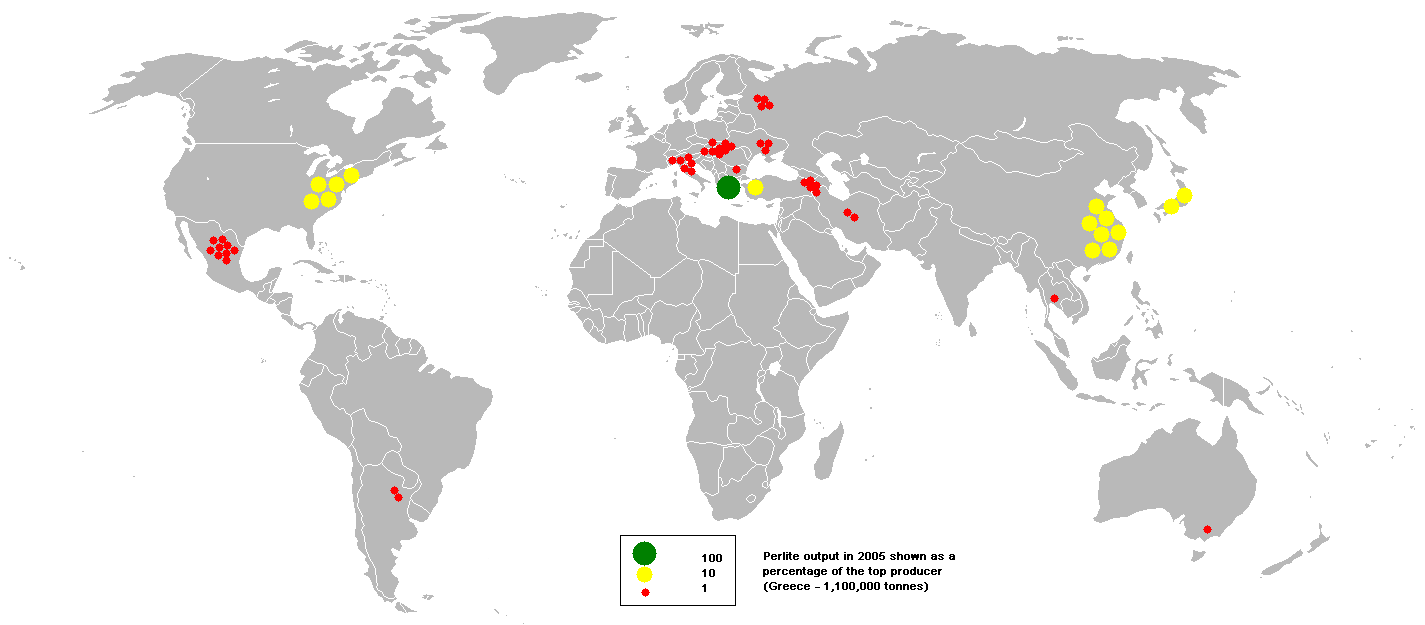 This bubble map shows the global distribution of perlite output in 2005 as a percentage of the top producer (Greece - 1,100,000 tonnes). This map is consistent with incomplete set of data too as long as the top producer is known. It resolves the accessibility issues faced by colour-coded maps that may not be properly rendered in old computer screens. Data was extracted on 31st May 2007. Source - Based on Image:BlankMap-World.png